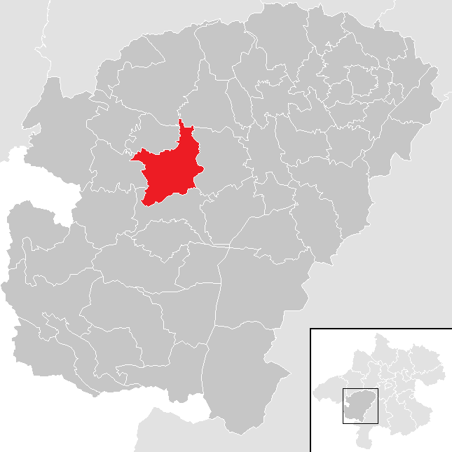 District Vöcklabruck